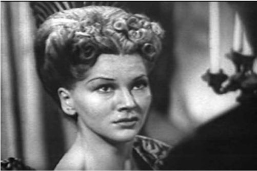 Screenshot of Teala Loring from Bluebeard (1944)